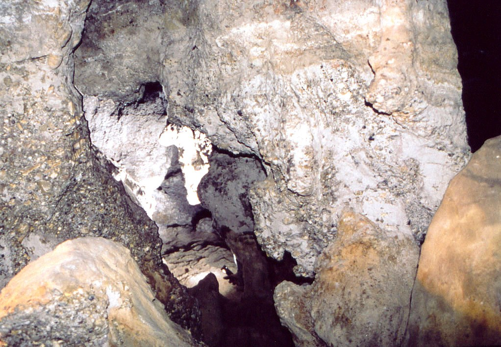 Angyal-forrási Cave in Tata.